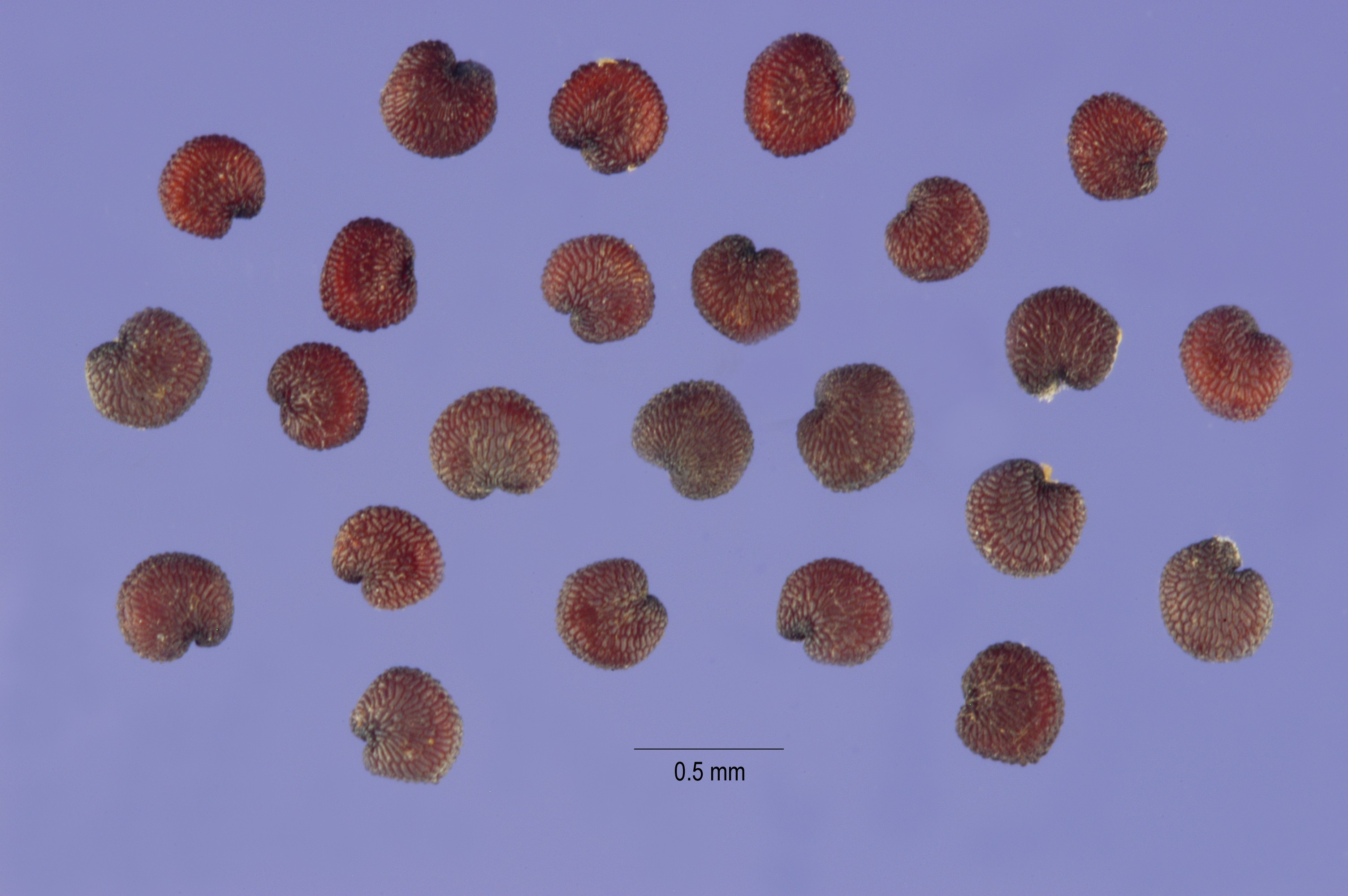 Arenaria leptoclados seeds